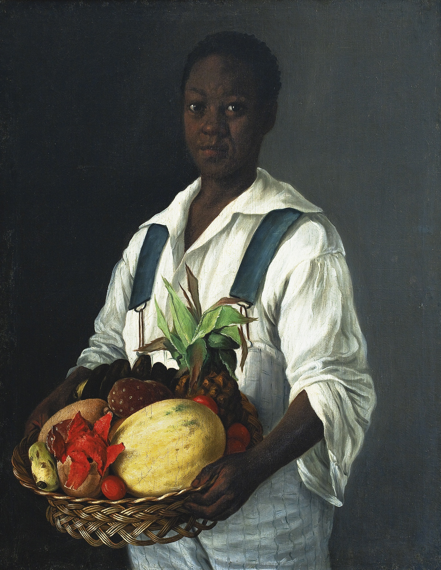 The painting is of an Afro-Mexican boy, probably from Veracruz, holding a basket with melons, a pineapple, avocados, pitahaya, prickly pears, mamey and apricots.